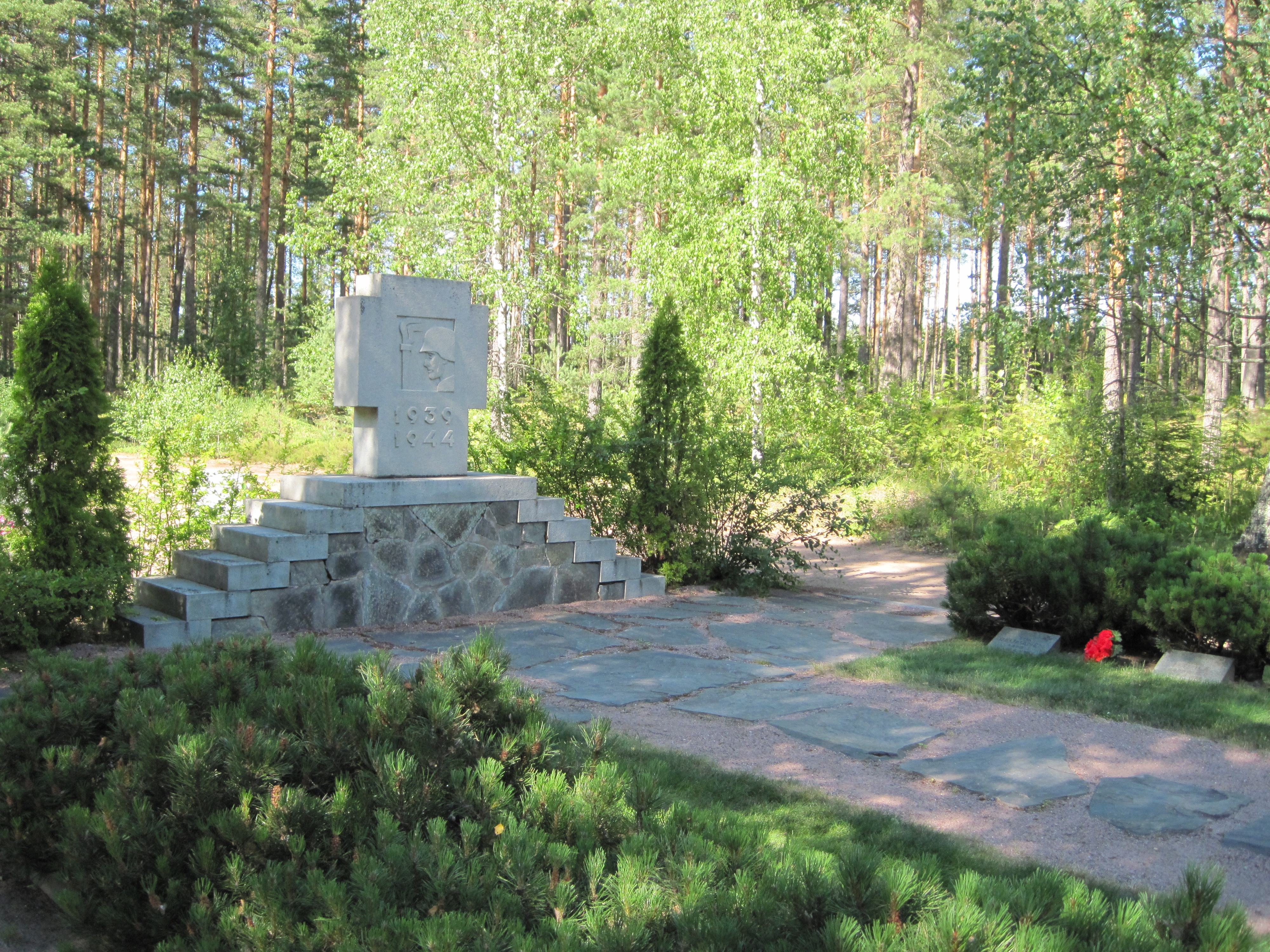 Military cemetary at church in Huhtamo, Finland